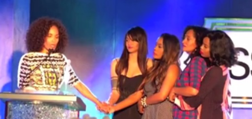 During the 6th Annual Essence Black Women in Hollywood Luncheon during Oscar weekend in Los Angeles, California, the cast of the cult favorite show, ‘Girlfriends’ (actresses Tracee Ellis Ross, Persia White, Golden Brooks and Jill Marie Jones) came together to honor show creator Mara Brock-Akil with her Essence ‘Visionary’ award. Left to right: Mara Brock Akil, Persia White, Golden Brooks, Tracee Ellis Ross, Jill Marie Jones.